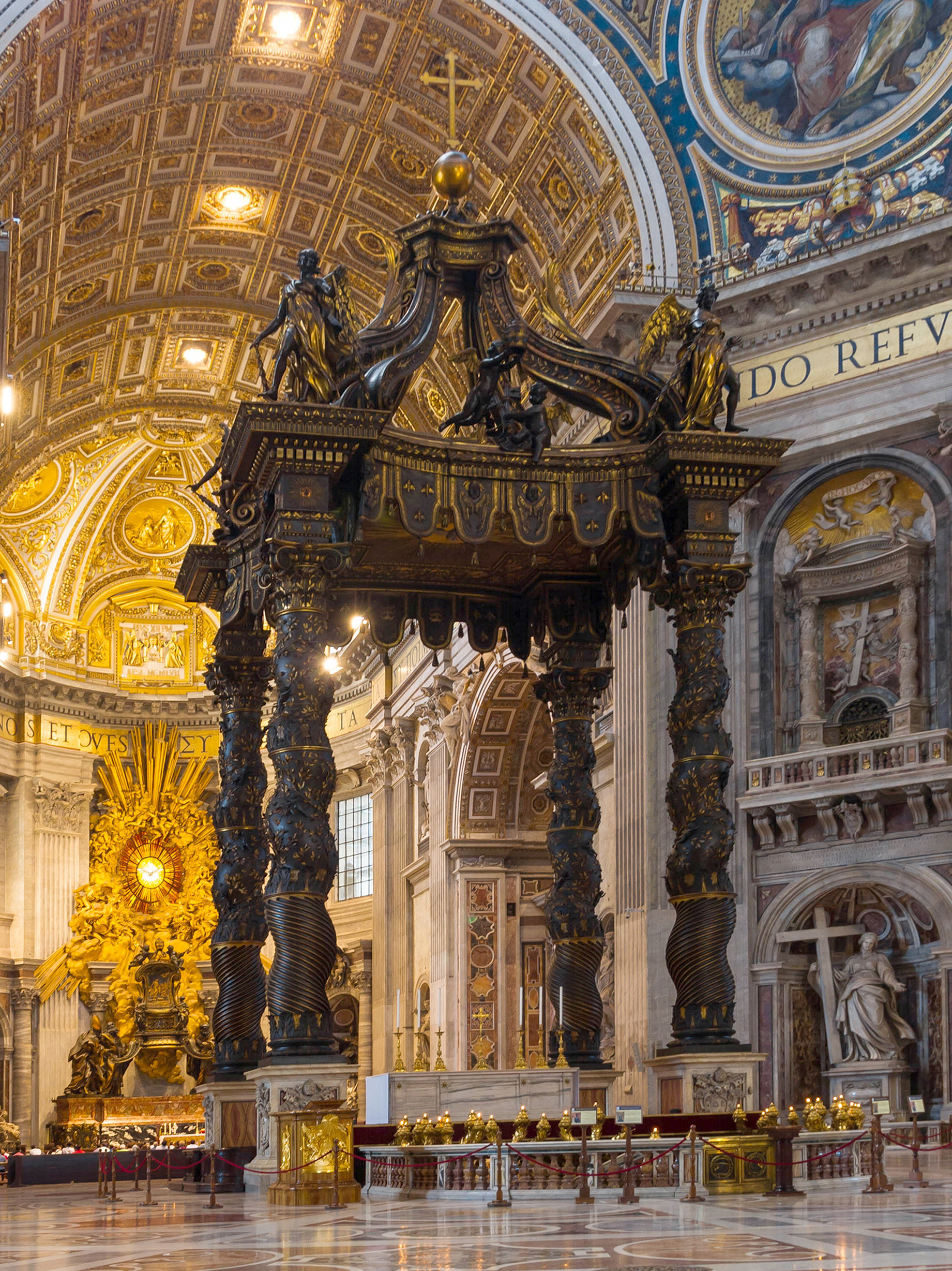 Baldachin by Bernini, altar and absid, Saint Peter's Basilica, Vatican City.